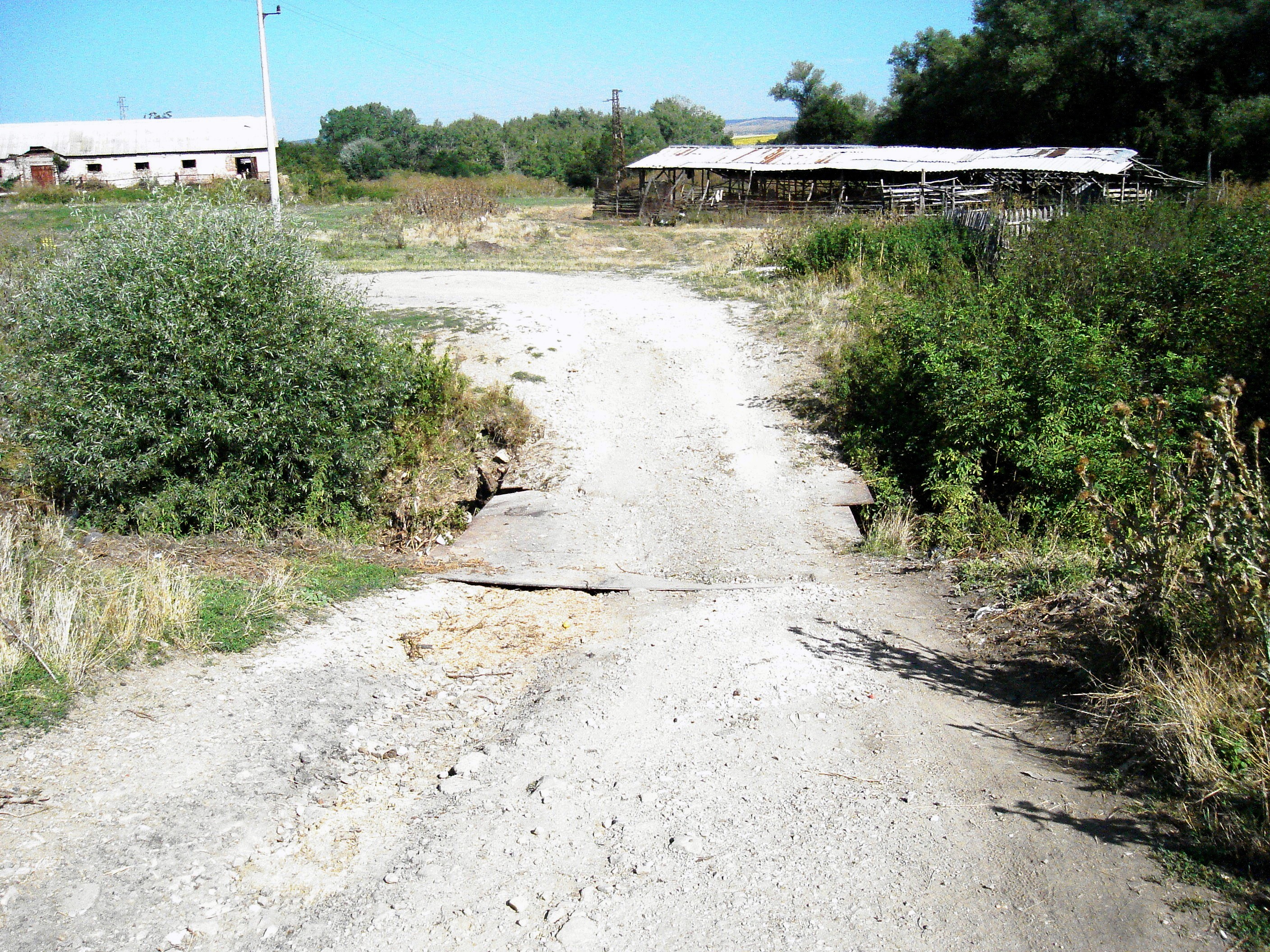 The bridge near the buildings of the Agricultural cooperation of village Gigintsi